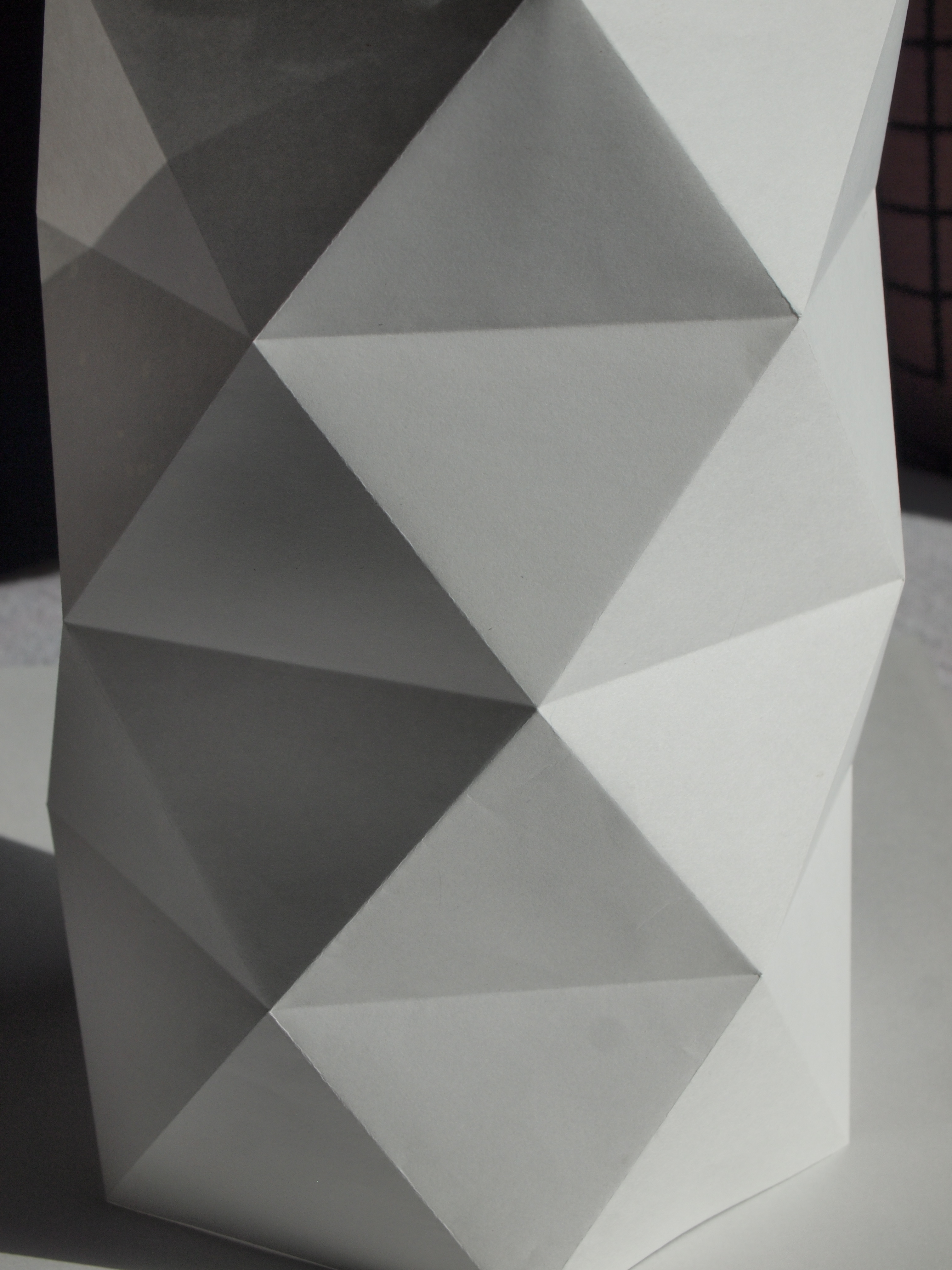 PCCP shell